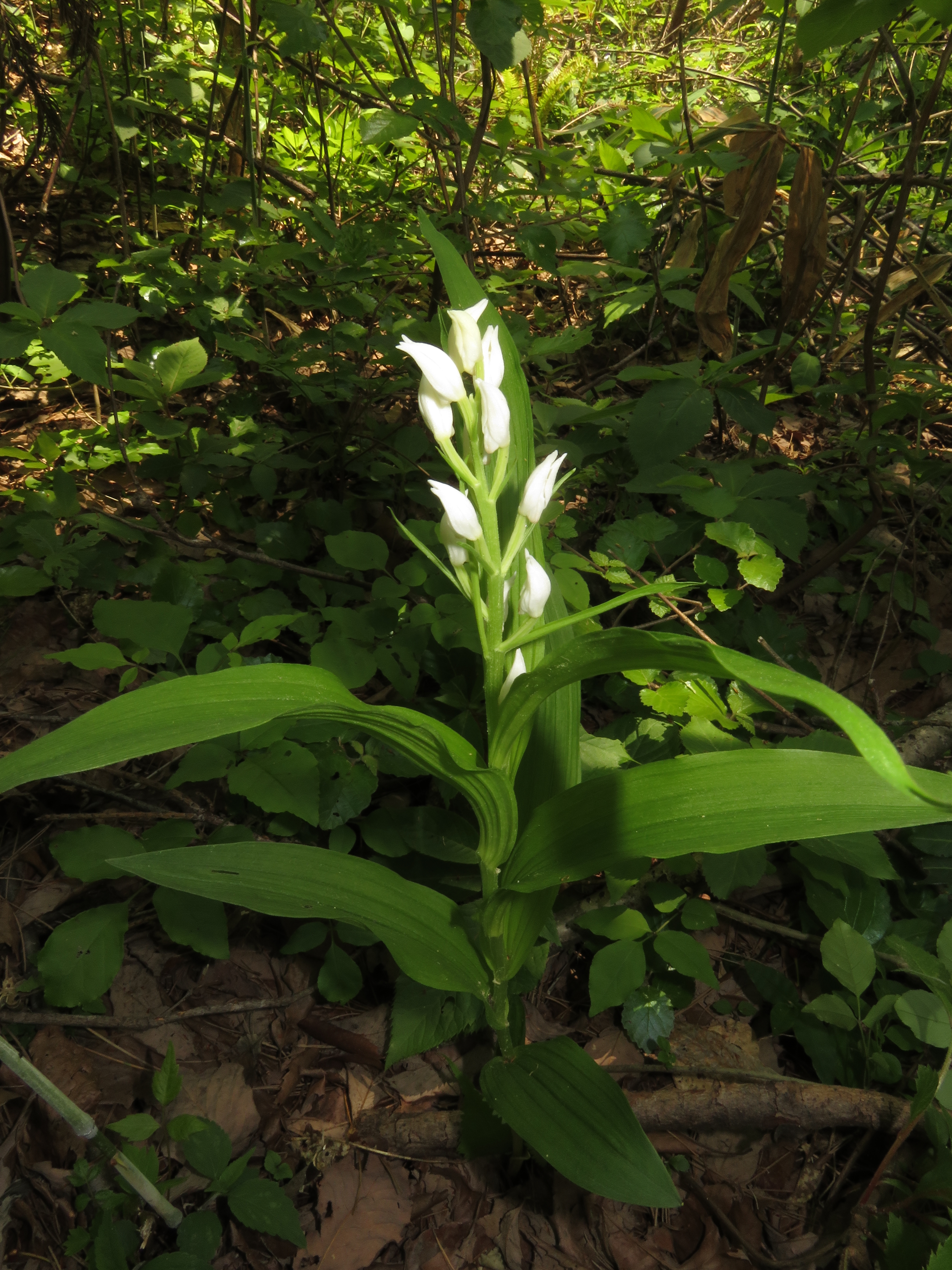 Cephalanthera longibracteata, Aizu area, Fukushima pref., Japan